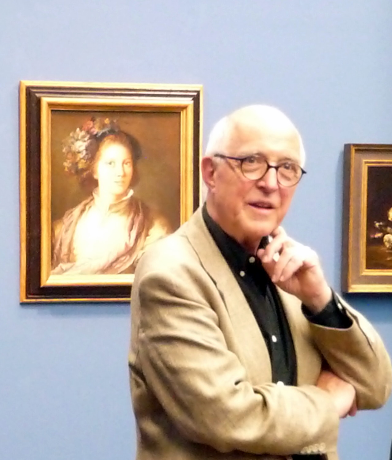 Klaus Gallwitz, curator